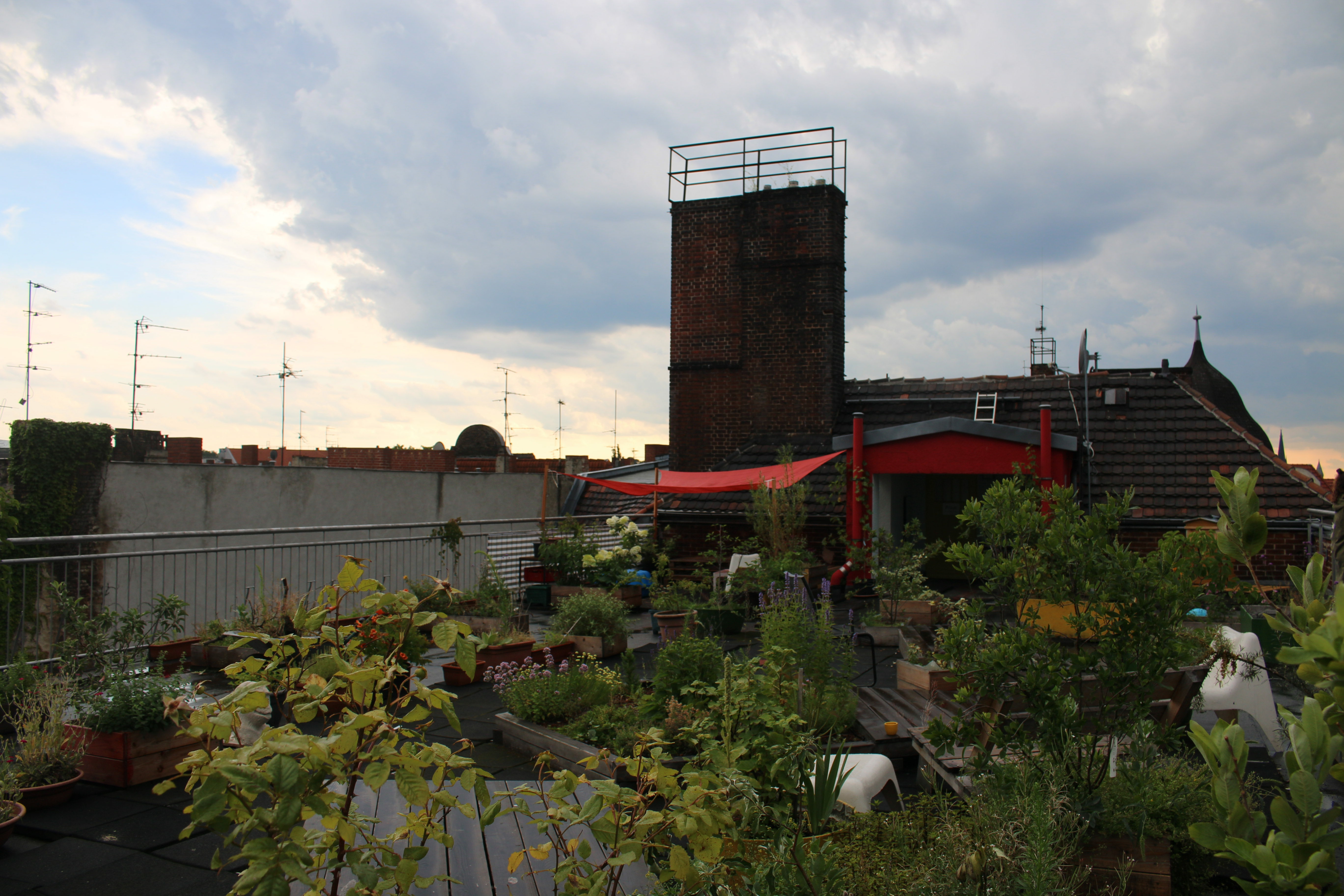 Roof-top terrace of Sharehouse Refugio in Berlin.